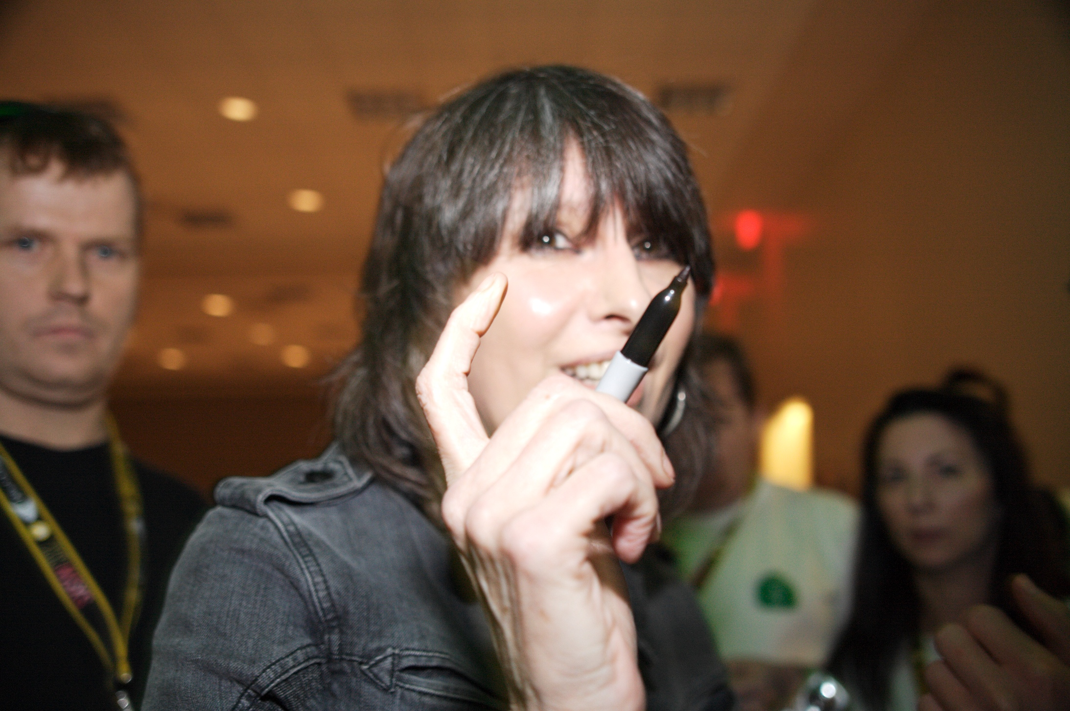 chrissie says wait a moment to take that pic